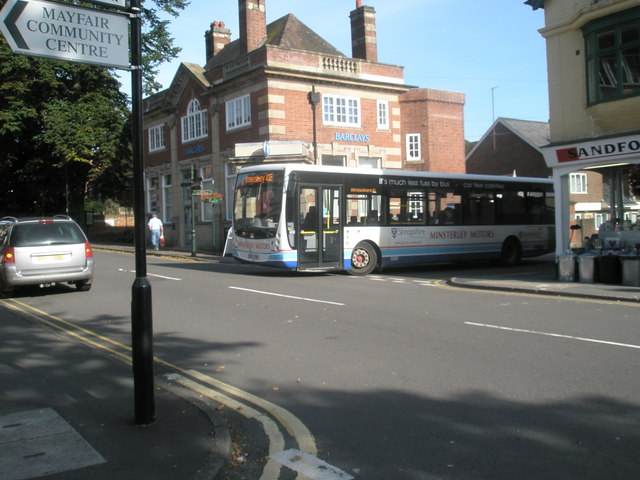 Bus emerging from Beaumont Road into Sandford Avenue